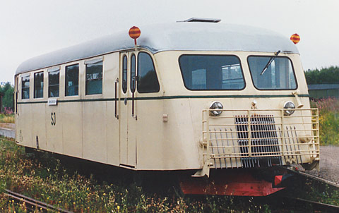 A classic Hilding-Carlsson railcar in Gävle's railroad museum.